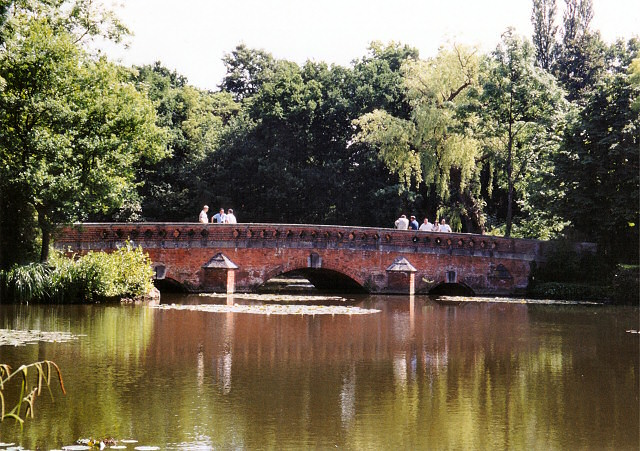 Tykes Water bridge Immortalised in the opening titles of the Tara King episodes of the classic 60's series The Avengers. Tara runs along the bridge wall and jumps off the end.